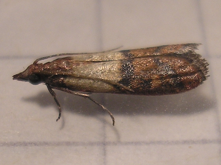 Indian Meal Moth (Plodia interpunctella).Location: Ballans, 17160 (Charente-Maritime) FranceKeywords: pest, food, chocolate